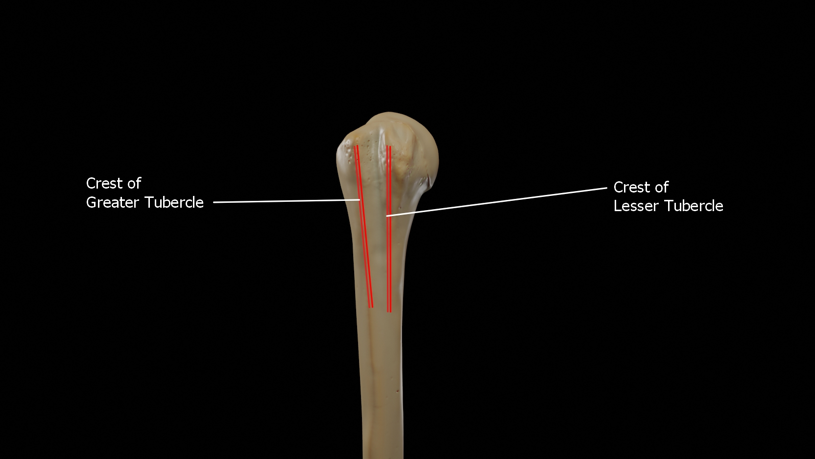 The crest of the greater tubercle forms the lateral lip of the bicipital groove and is the site for insertion of pectoralis major and the crest of the lesser tubercle forms the medial lip of the bicipital groove and is the site for insertion of teres major and latissimus dorsi muscles.